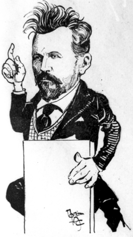 Sergei Bulgakov